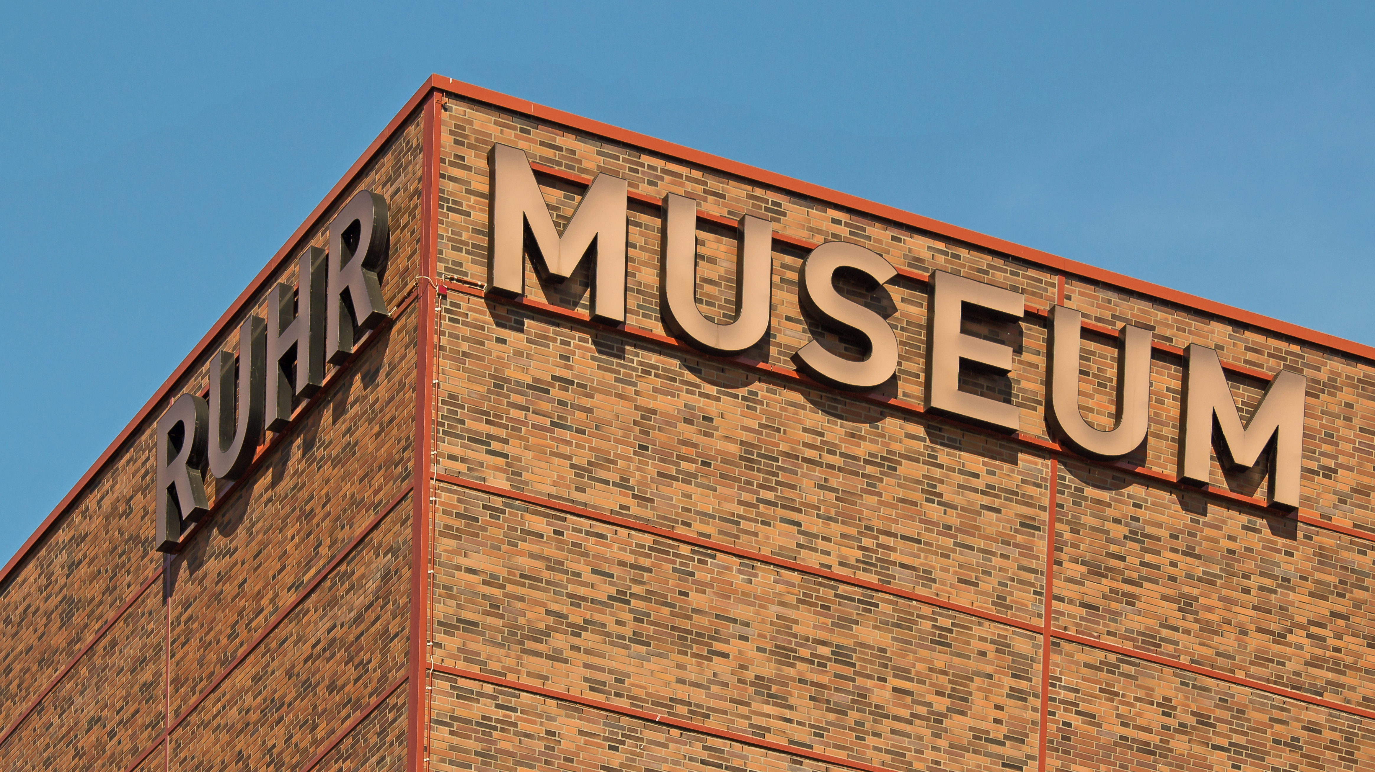 logo of the Ruhr Museum at Zeche Zollverein [UNSECO World Heritage Zollverein] - Essen, North Rhine-Westphalia, Germany